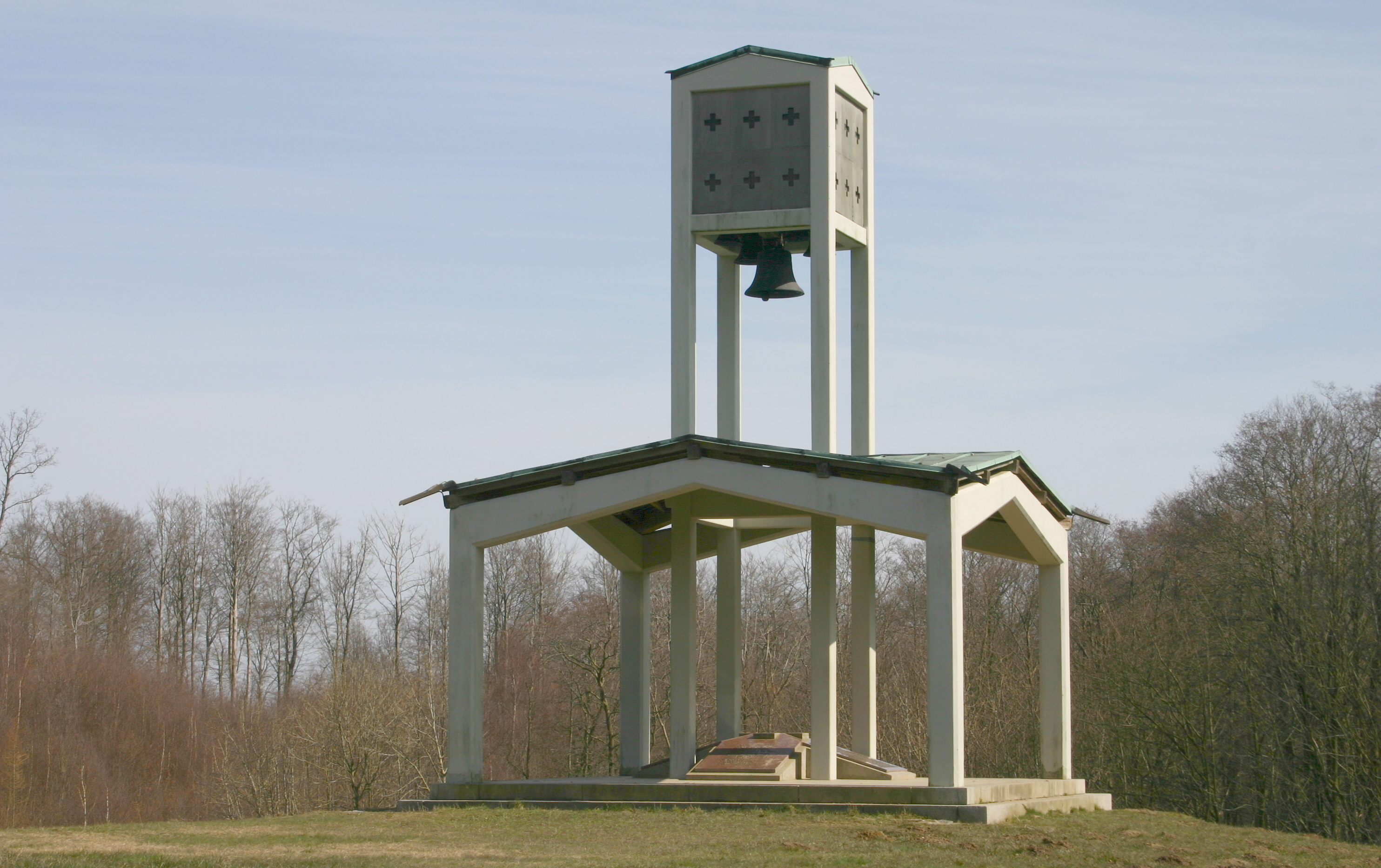 War Memorial at Skamlingsbanken, Denmark.In the memory of the fallen resistence people in World War 2.Established 1948.